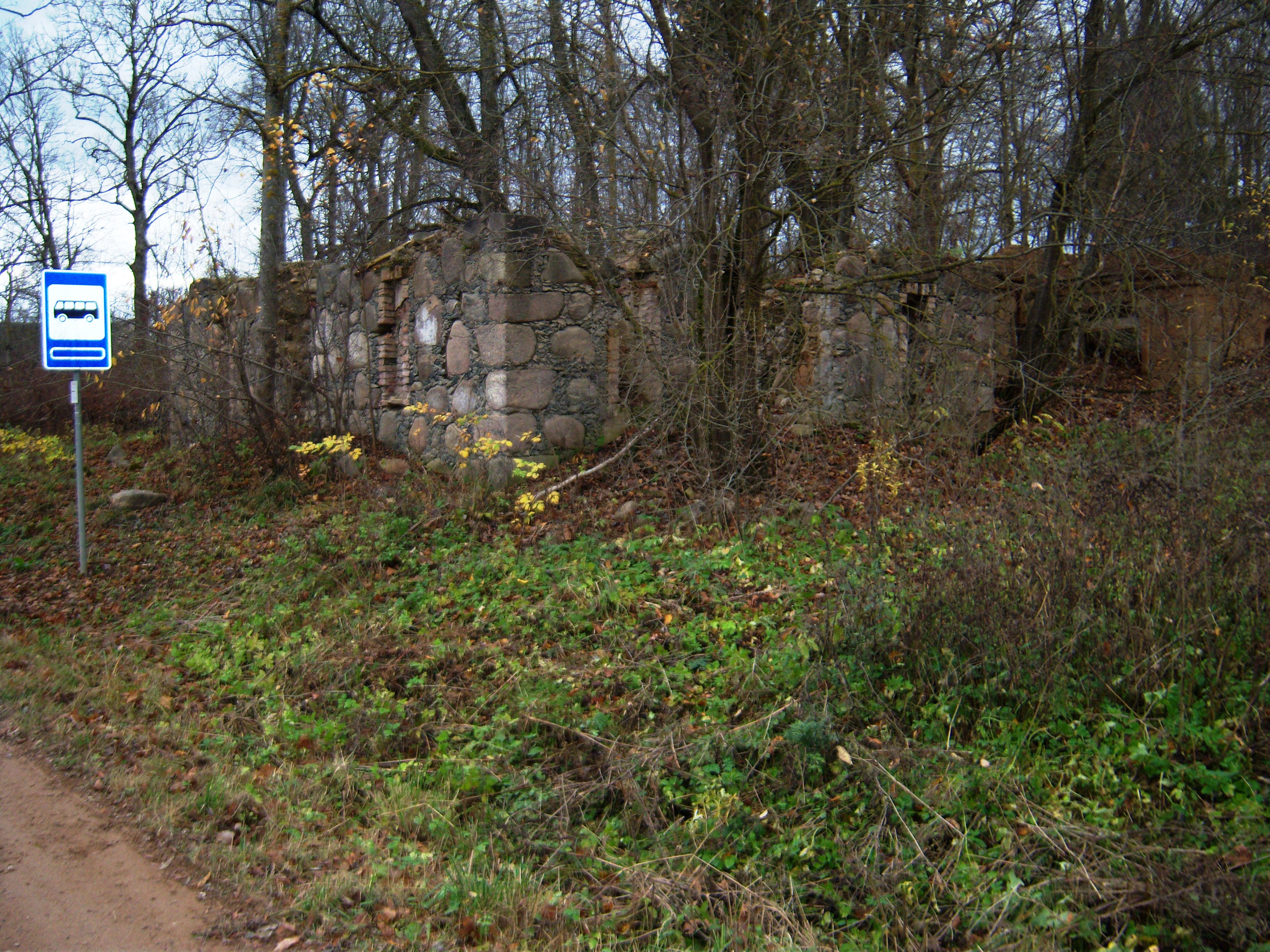 Former manor, ruins, Zasinyčiai, Kupiškis District, Lithuania